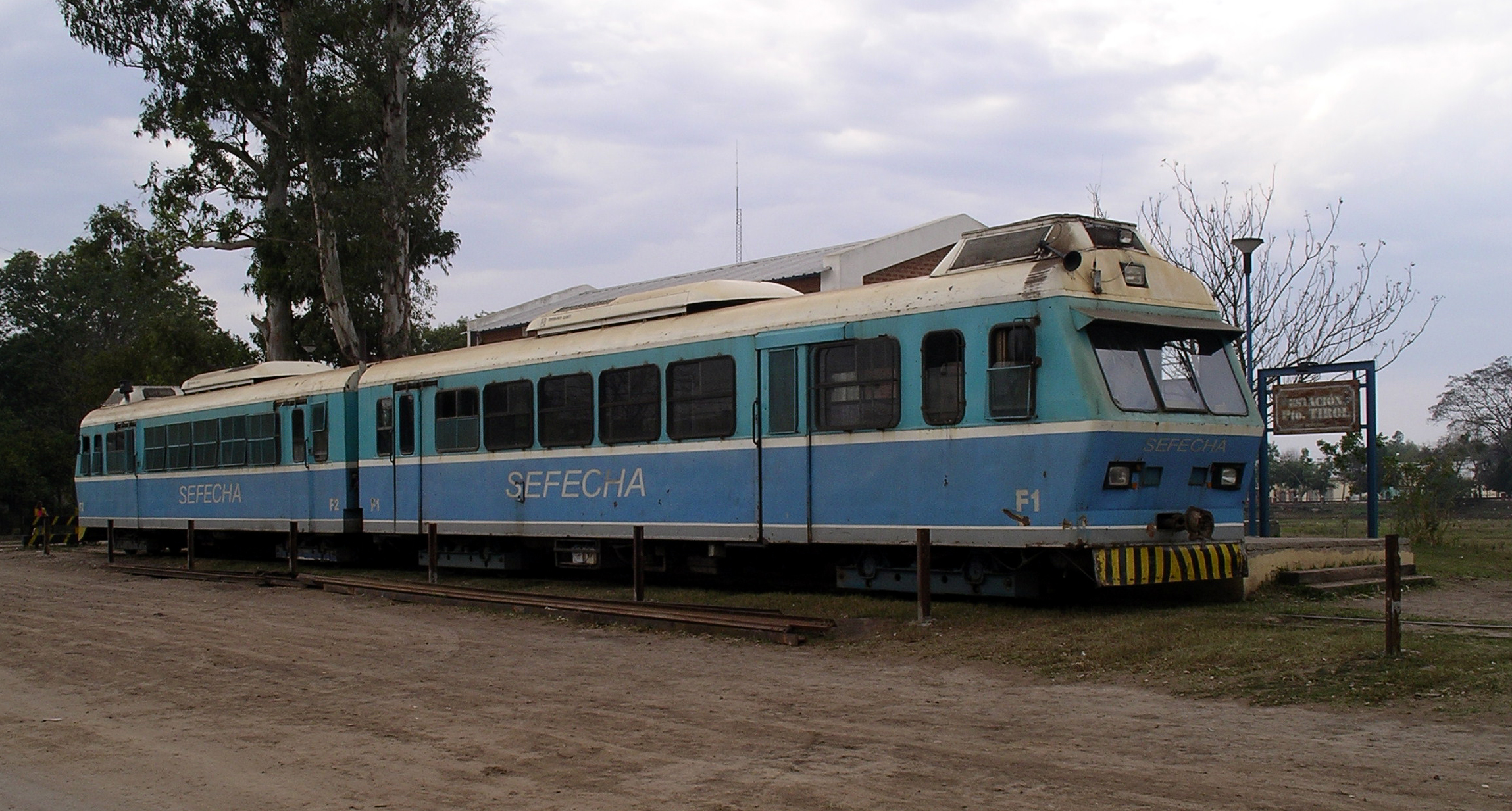 Puerto Tirol railway station